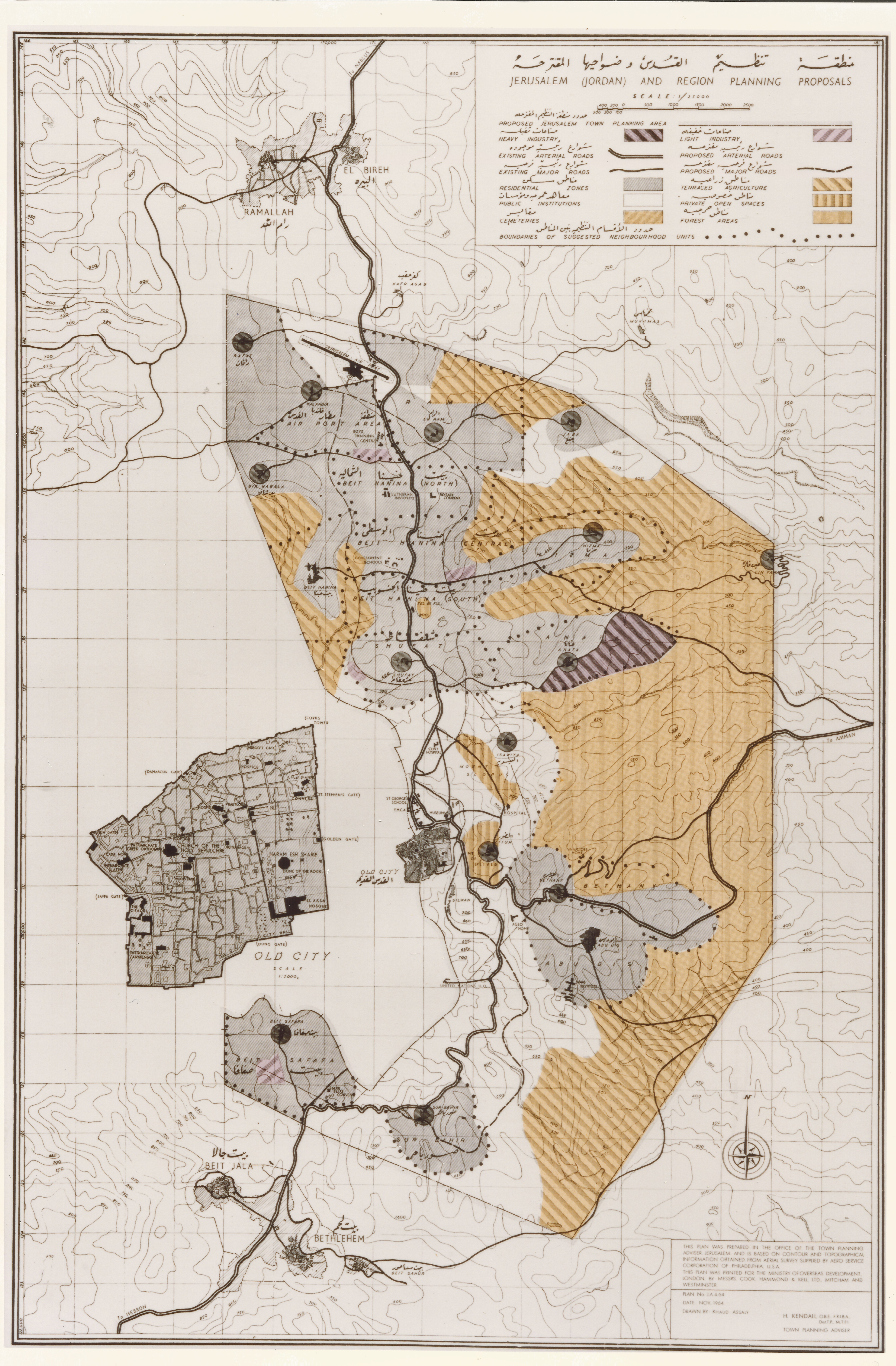 Urban Planner Henry Kendall was invited by the Jordanian government to draw up a revised masterplan for the East Jerusalem in 1963. The resulting masterplan was completed in 1964